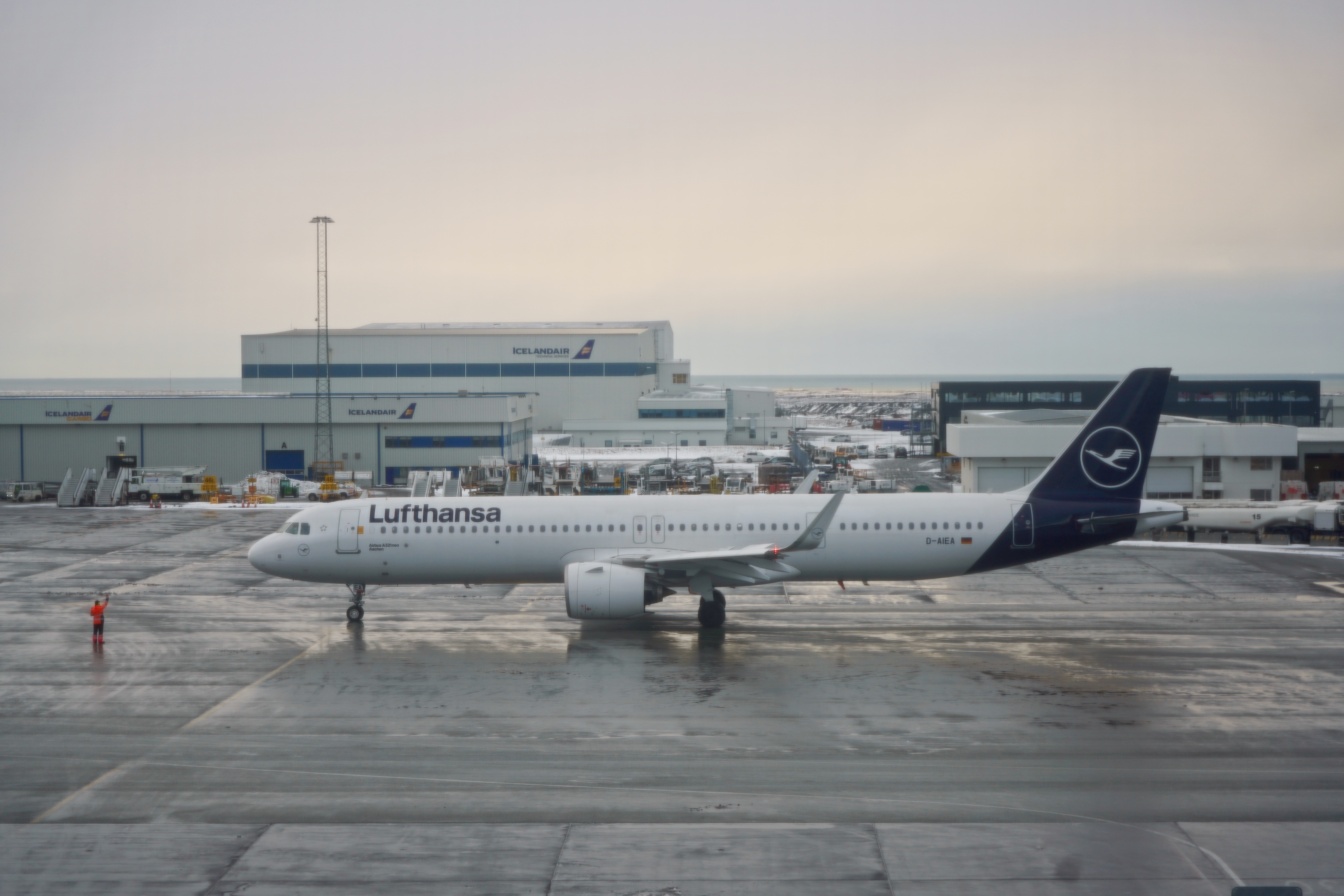 A Lufthansa A321 in Reykjavik